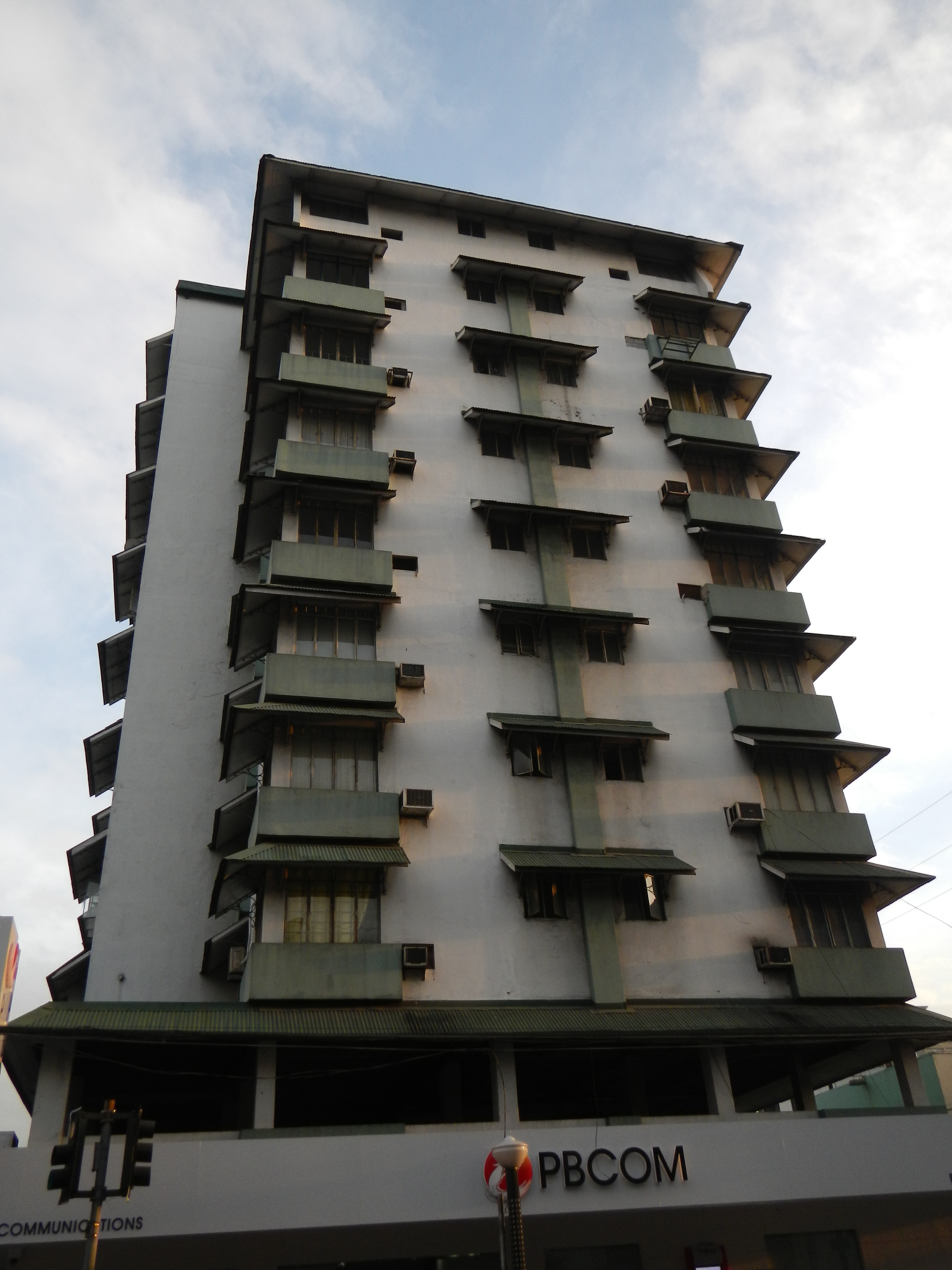 Upload Wizard photos of - Carlos P. Romulo[1] statue, United Nations Avenue [2], b) Bayview Park Hotel Manila[3] c) Del Pilar Street, c) Philippine Bank of Communications [4] d) Roman Ongpin Statue, Ramada Manila Central Binondo, City of Manila.